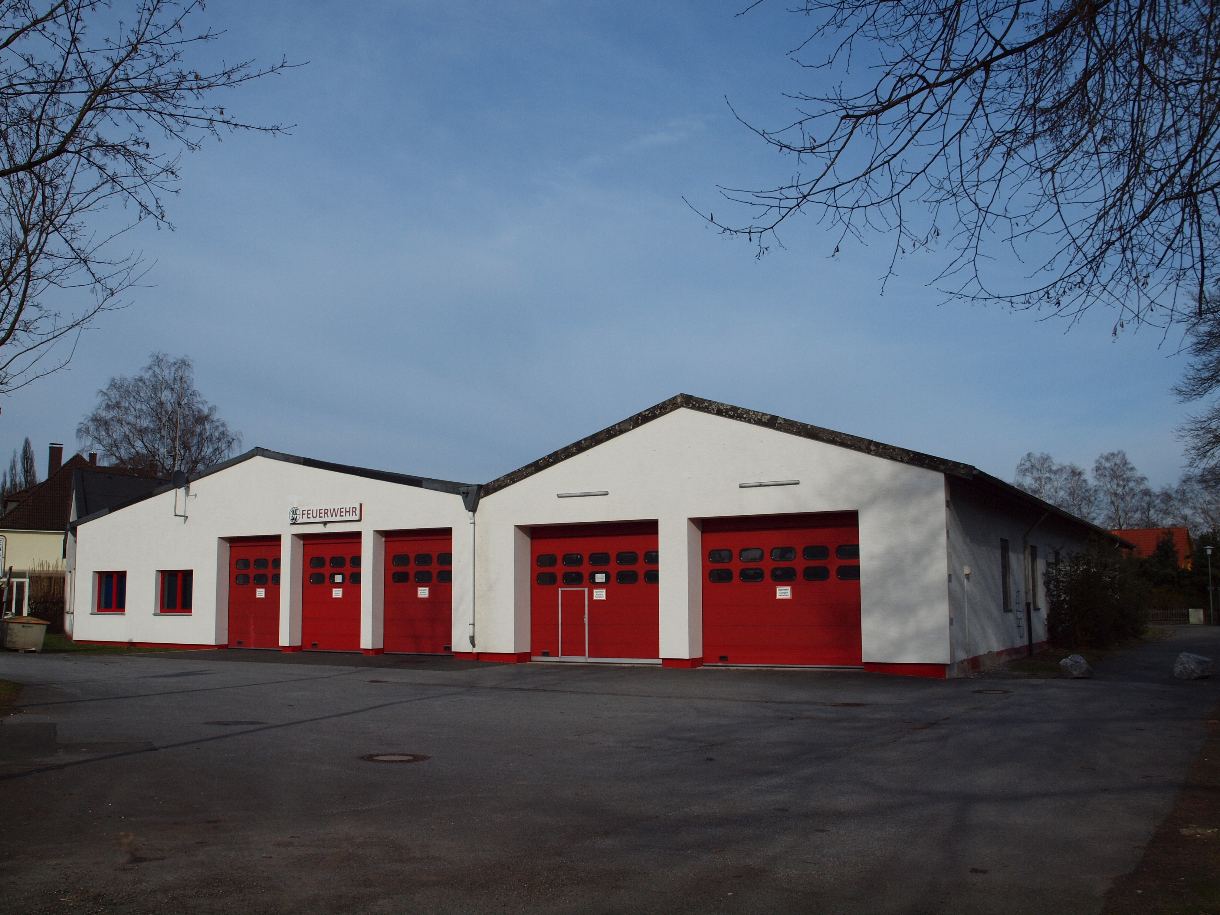 Car hall (fire brigade) in Schlangen